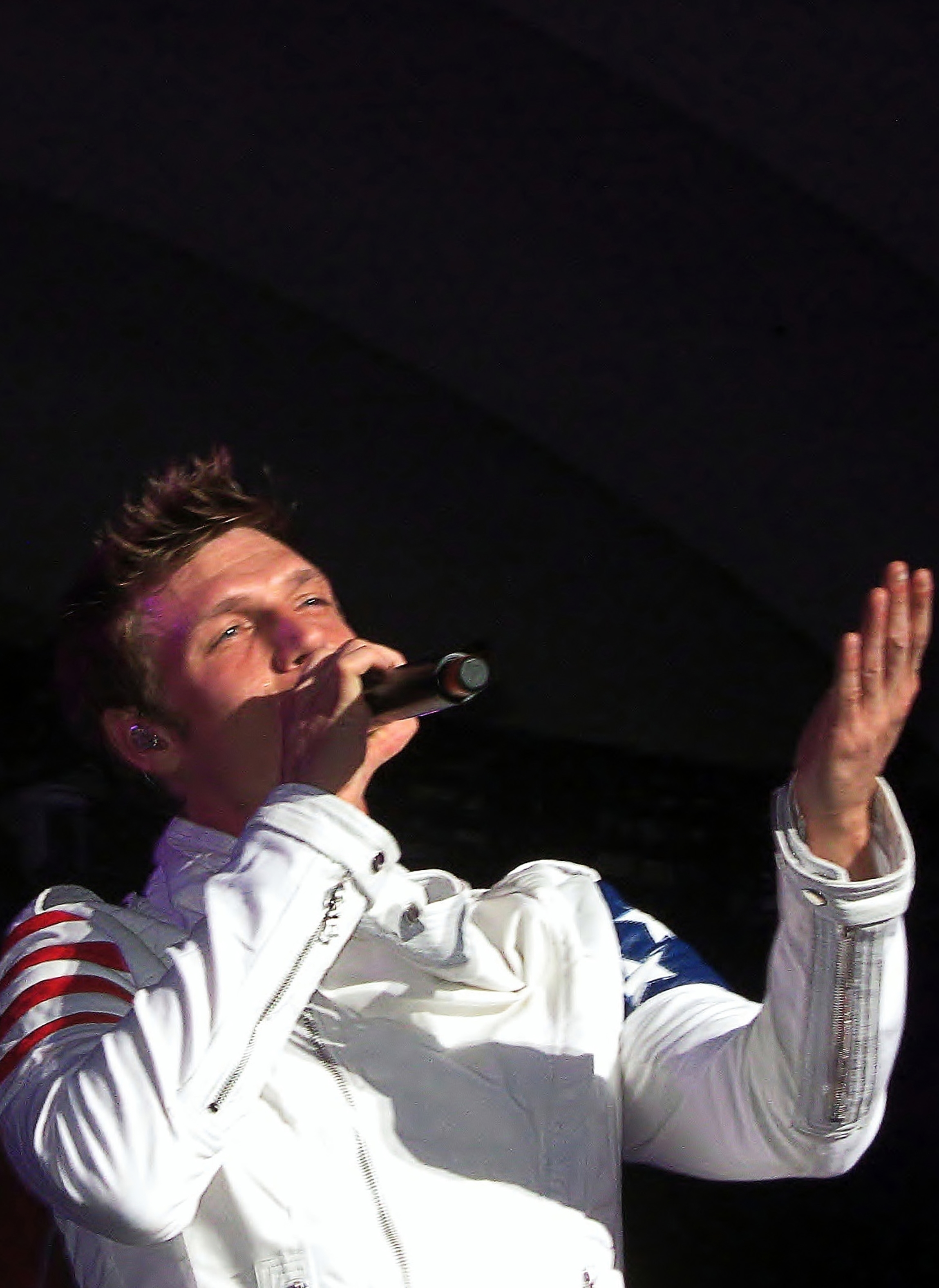 This is a photo of Nick Carter performing at the Canadian National Exhibition on August 19th, 2012.